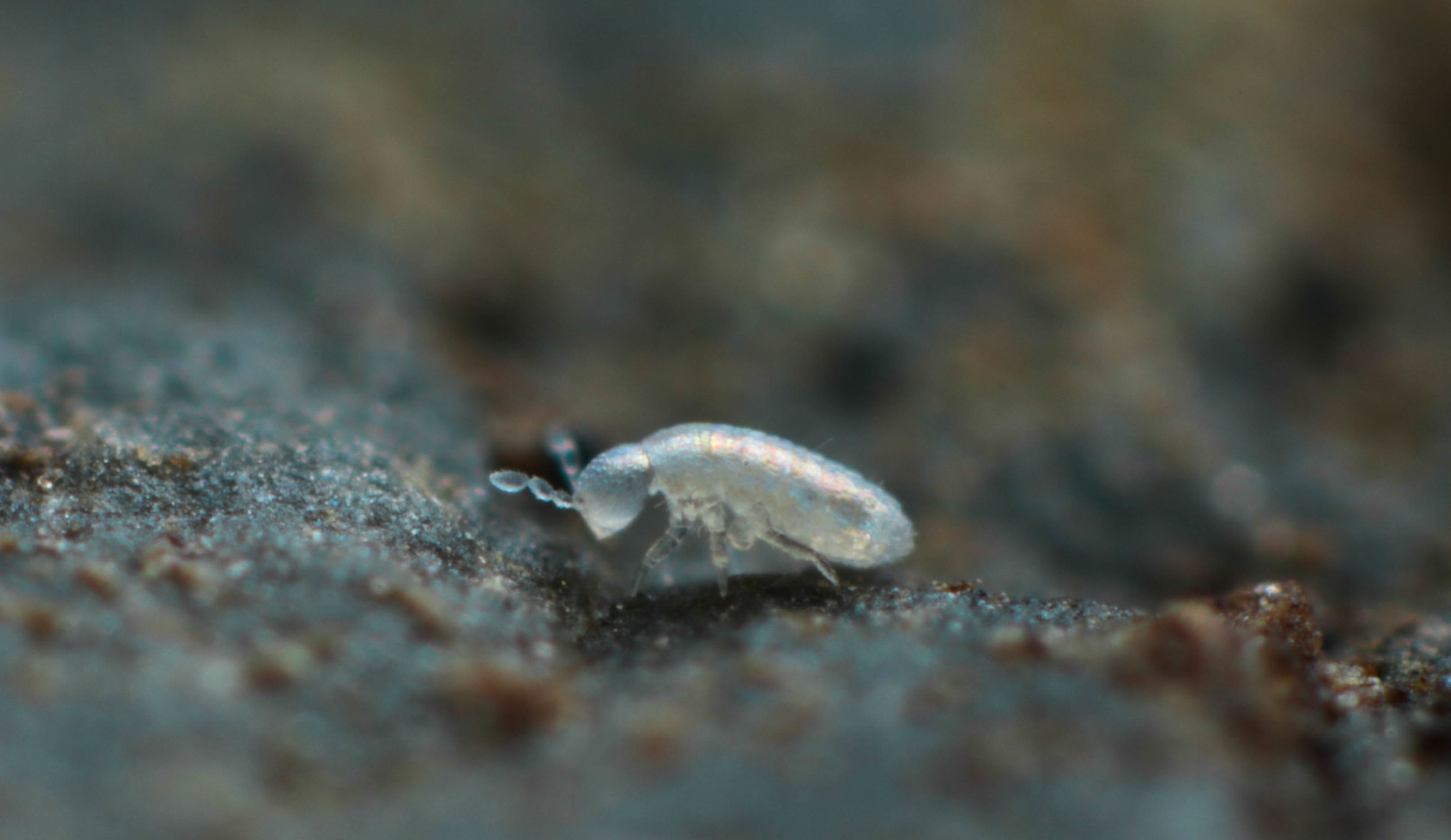 Oncopodura crassicornis from the UK. Original description on Flickr: After finding O. crassicornis in my sister's garden last month... I wasn't expecting to find it again so soon, but here it is, in the poly-tunnel greenhouse on the farm where I live, a little smaller than the one I found up in Yorkshire- I reckon no more than 0.6mm this time. They like disturbed ground so under stones and wood in gardens are a good place to look.